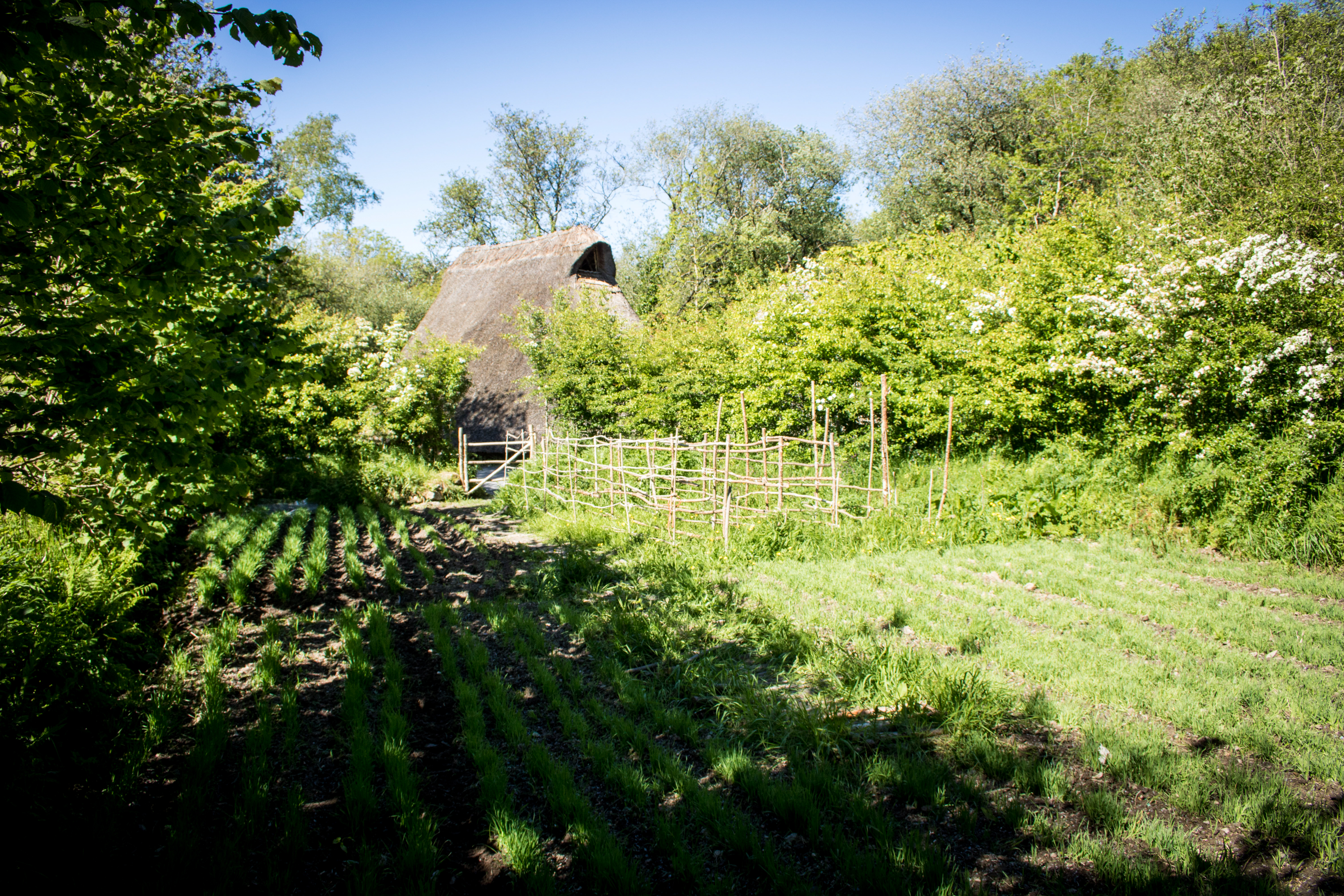 A neolithic farmstead and house reconstructed in the Irish national Heritage Park